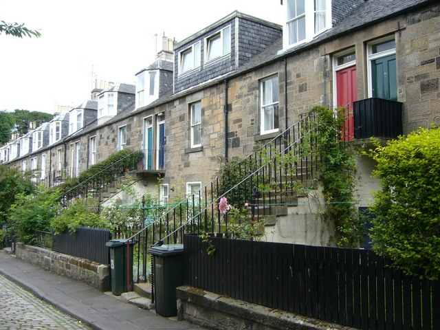 Collins Place, Stockbridge, Edinburgh. An example of 'colony housing'.